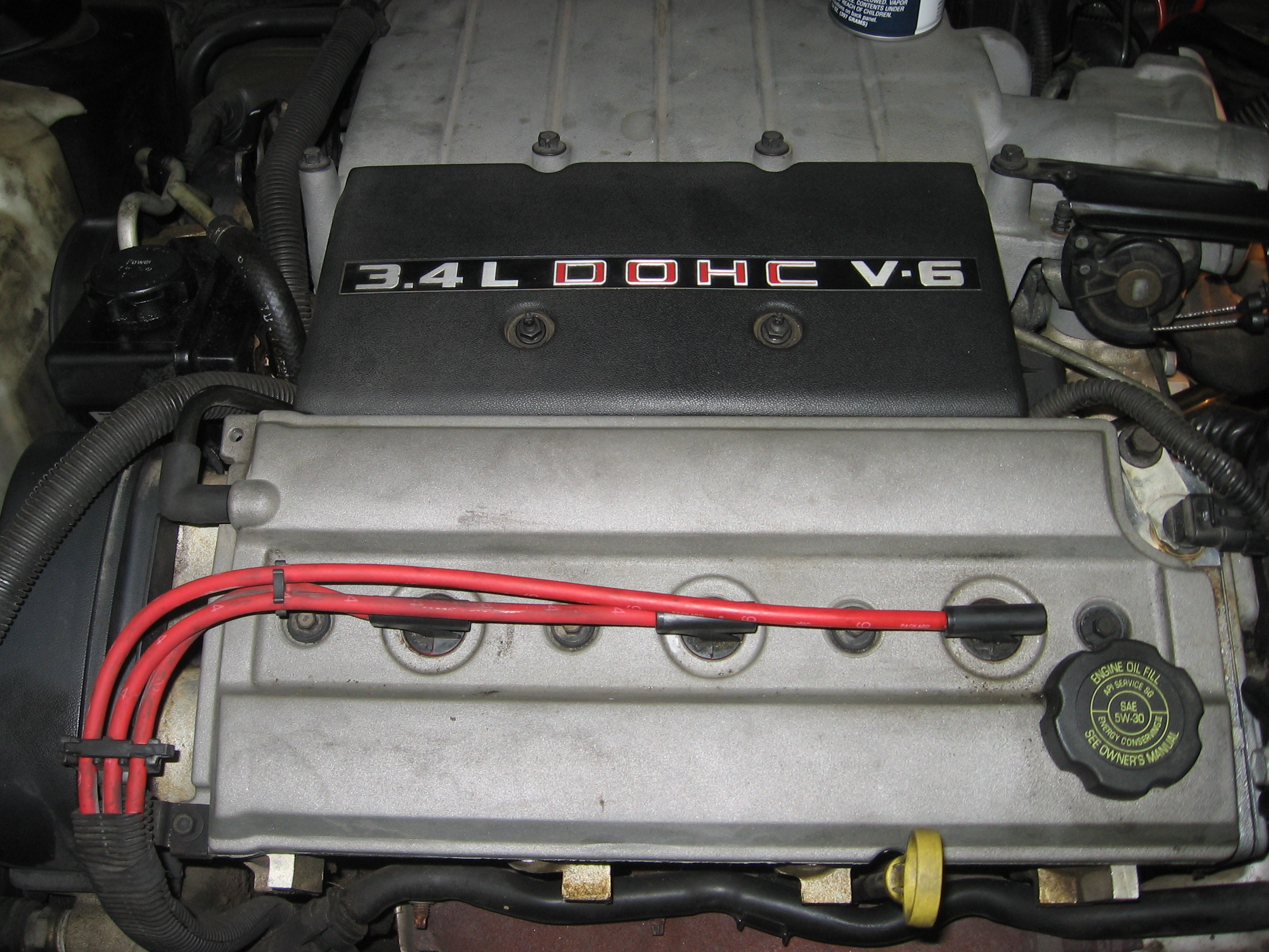 Overhaul of top end of engine